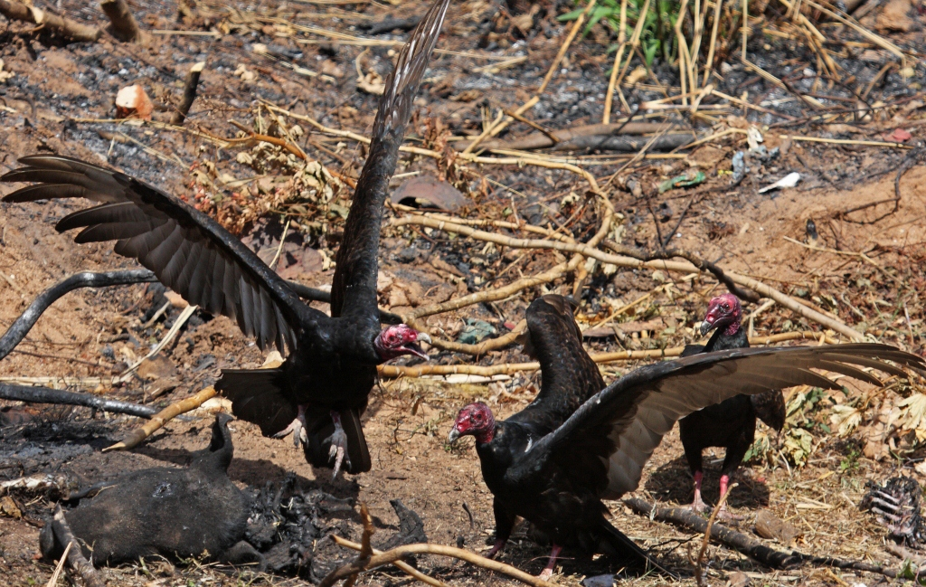 Feeding on a cow head that had been thrown out from a village near Trinidad, Sancti Spíritus.